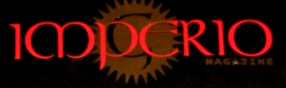 First Imperio Logo